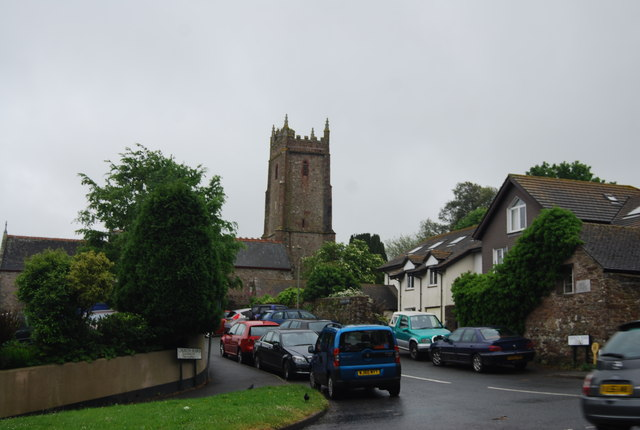 View south along Church Road, Dartmouth, Devon. The tower is that of St Clement's Church, former parish church of Townstal, the mother church of Dartmouth. The houses on the right are Pottery Court.